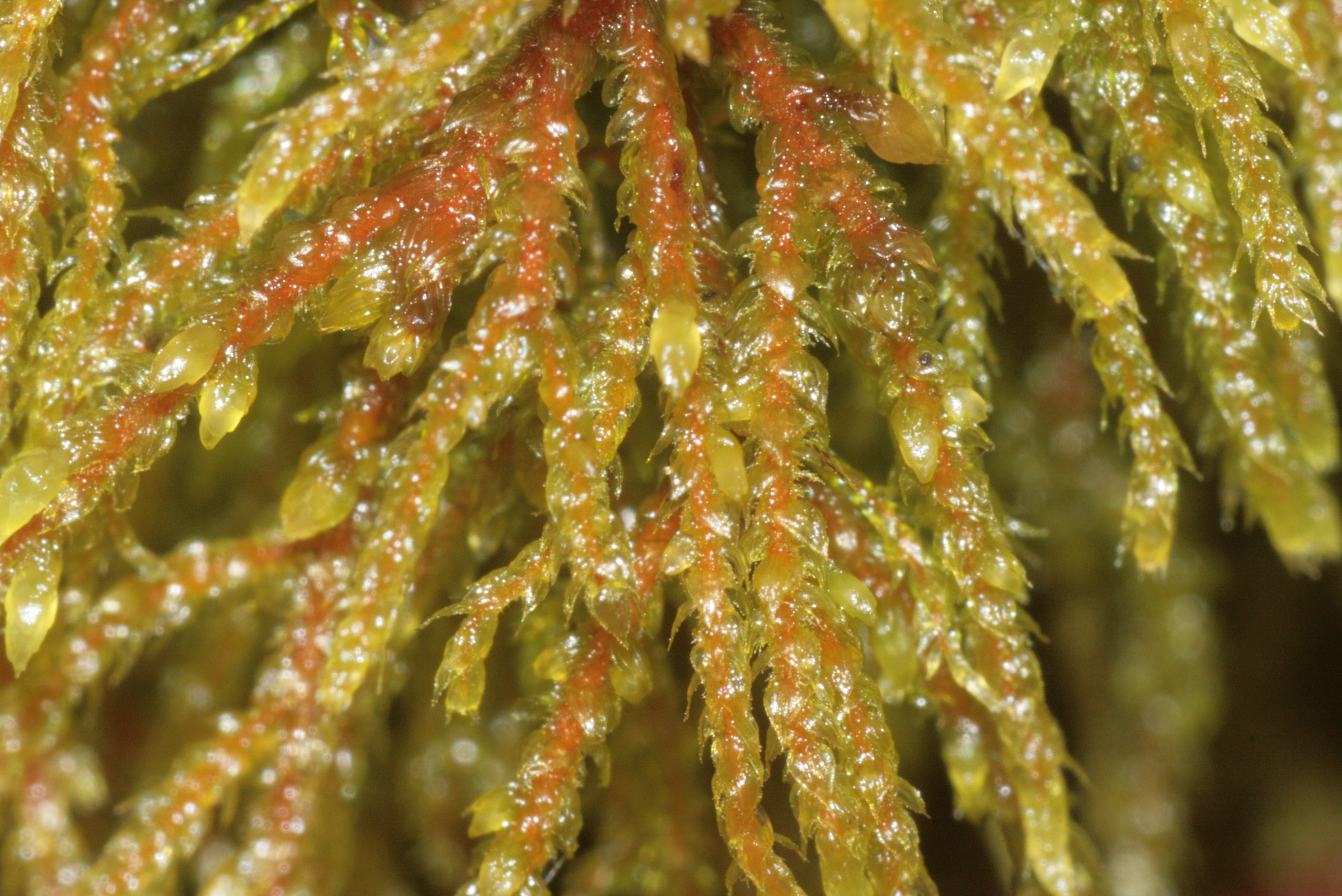 Hylocomiastrum umbratum